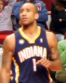 Dahntay Jones of the Indiana Pacers, Bulls vs Pacers December 2009